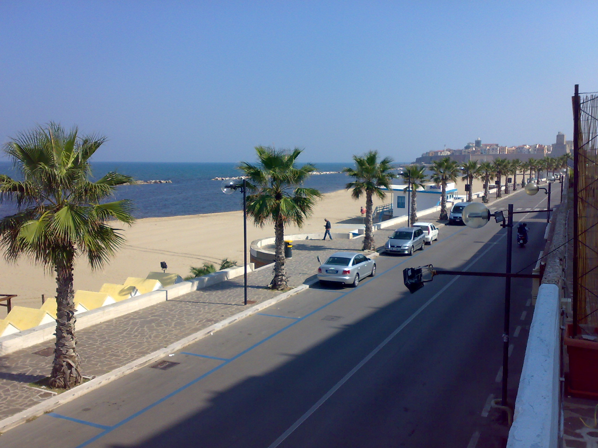 TERMOLI (CB)